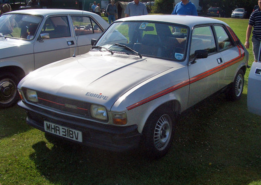 1980 Austin Allegro Equipe three door (1748cc). This limited edition was introduced in 1979 and sold into 1980. The alloys are original equipment.